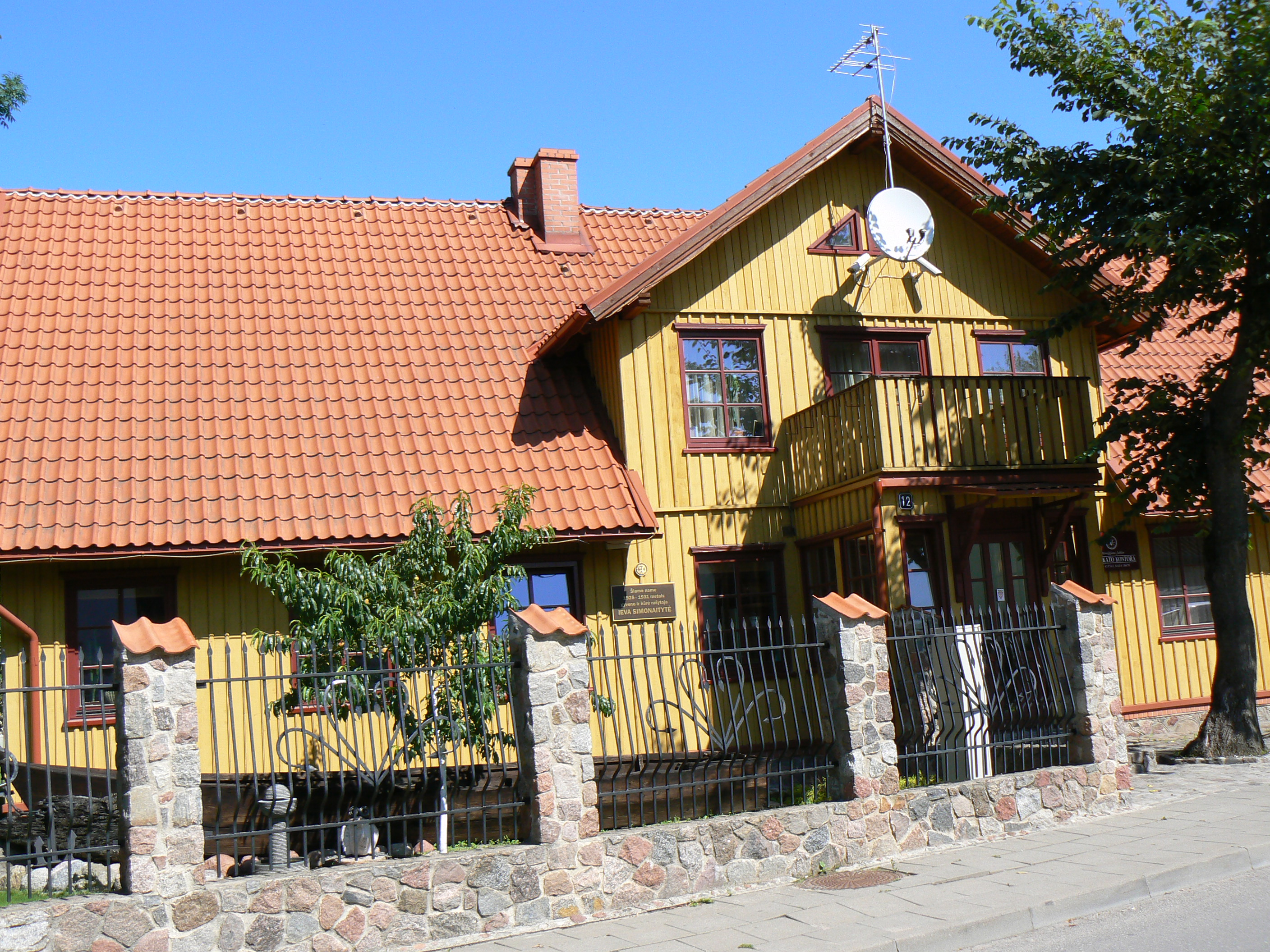 House, where created her works in 1925 - 1931 yrs Ieva Simonaitytė